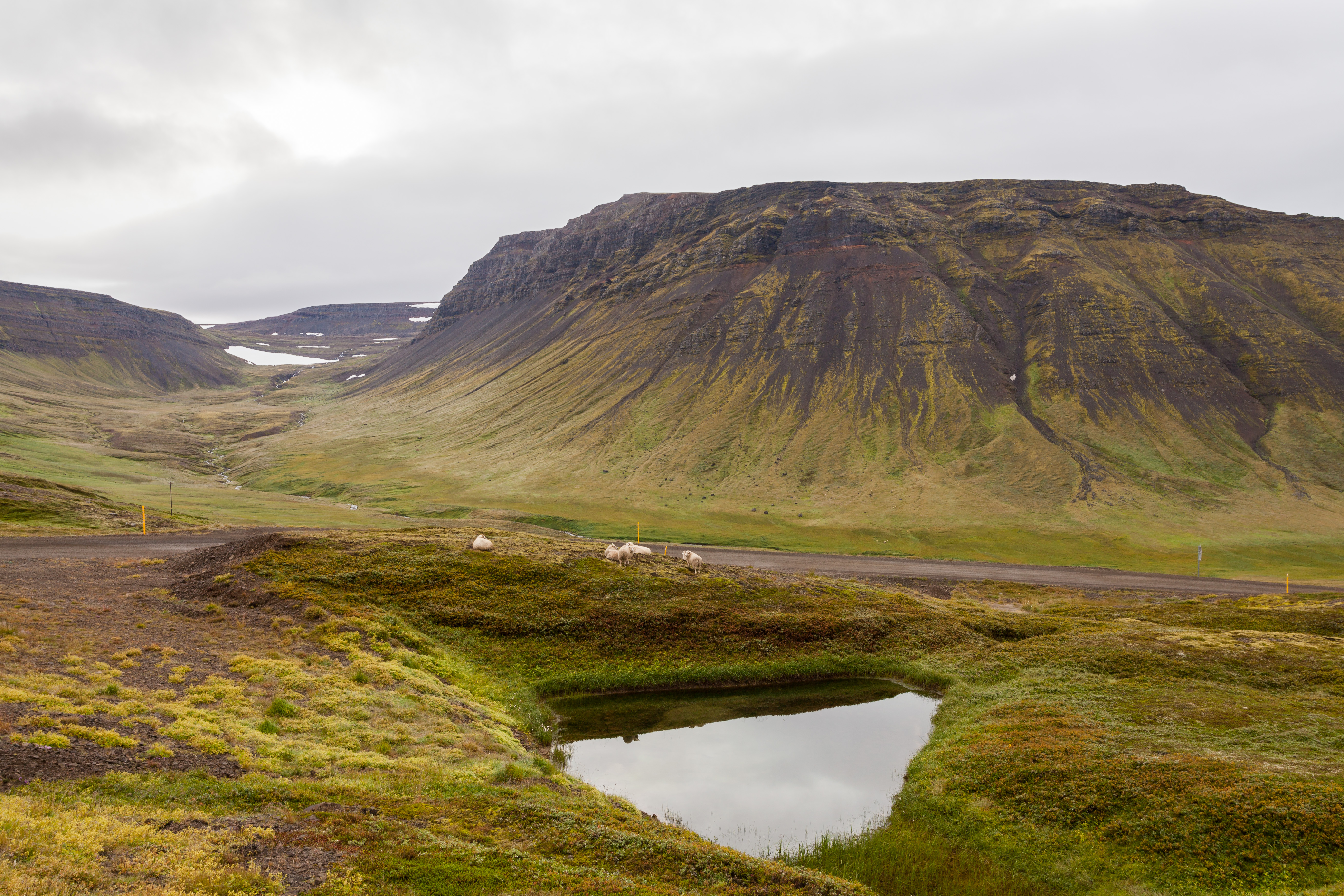 Hrafnseyrarheiði, Vestfirðir, Iceland.